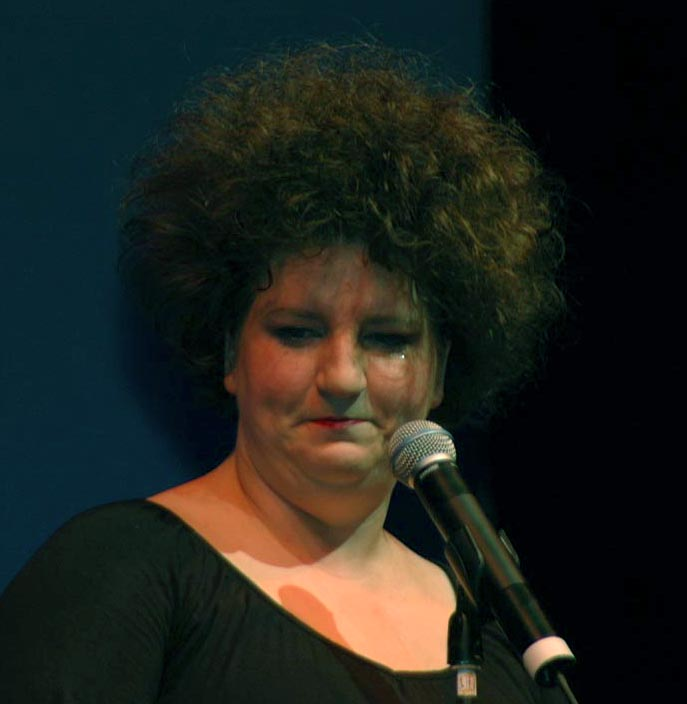 Anna-Maria Scholz, opening the Kulturbörse Freiburg 2009